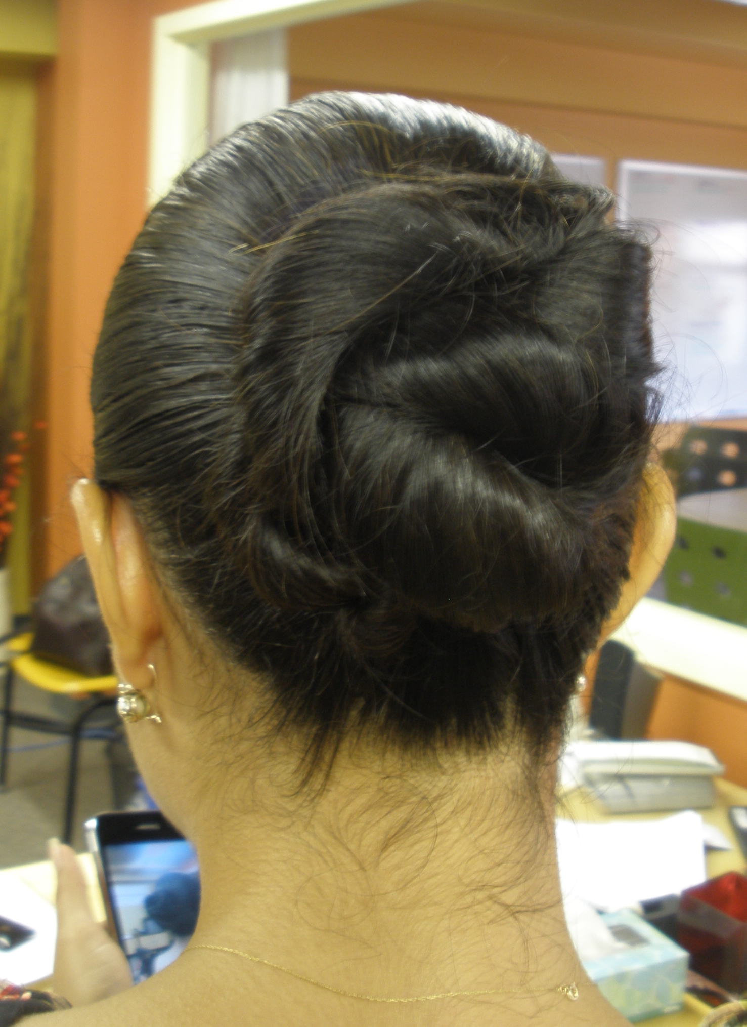 Photo of a Chignon by Jenna Drudi